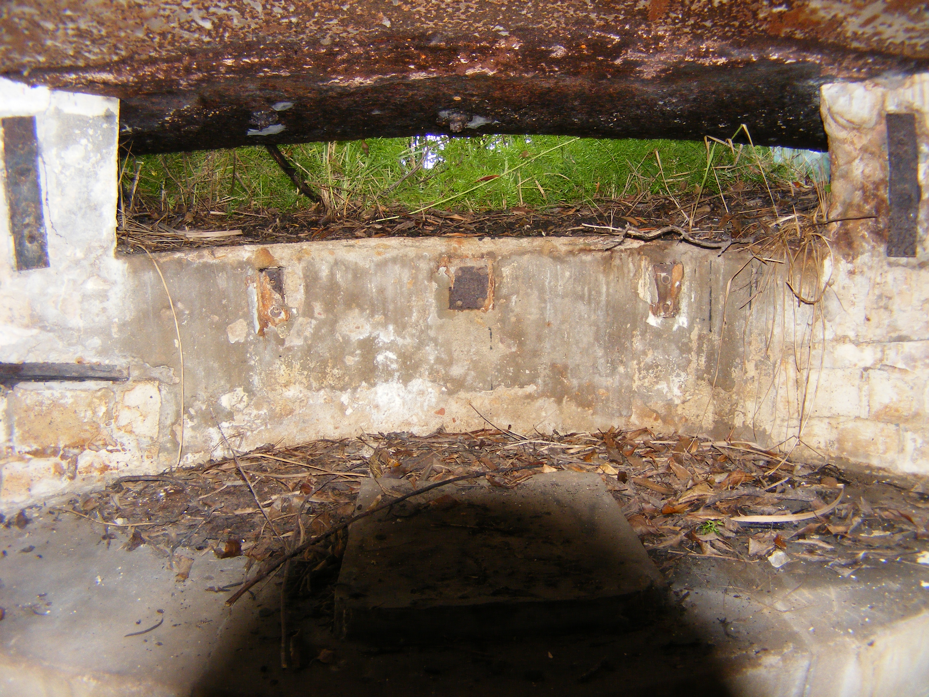 Sydney Harbour Defences. Inside a fort in Sydney Harbour. Machine gun nest.